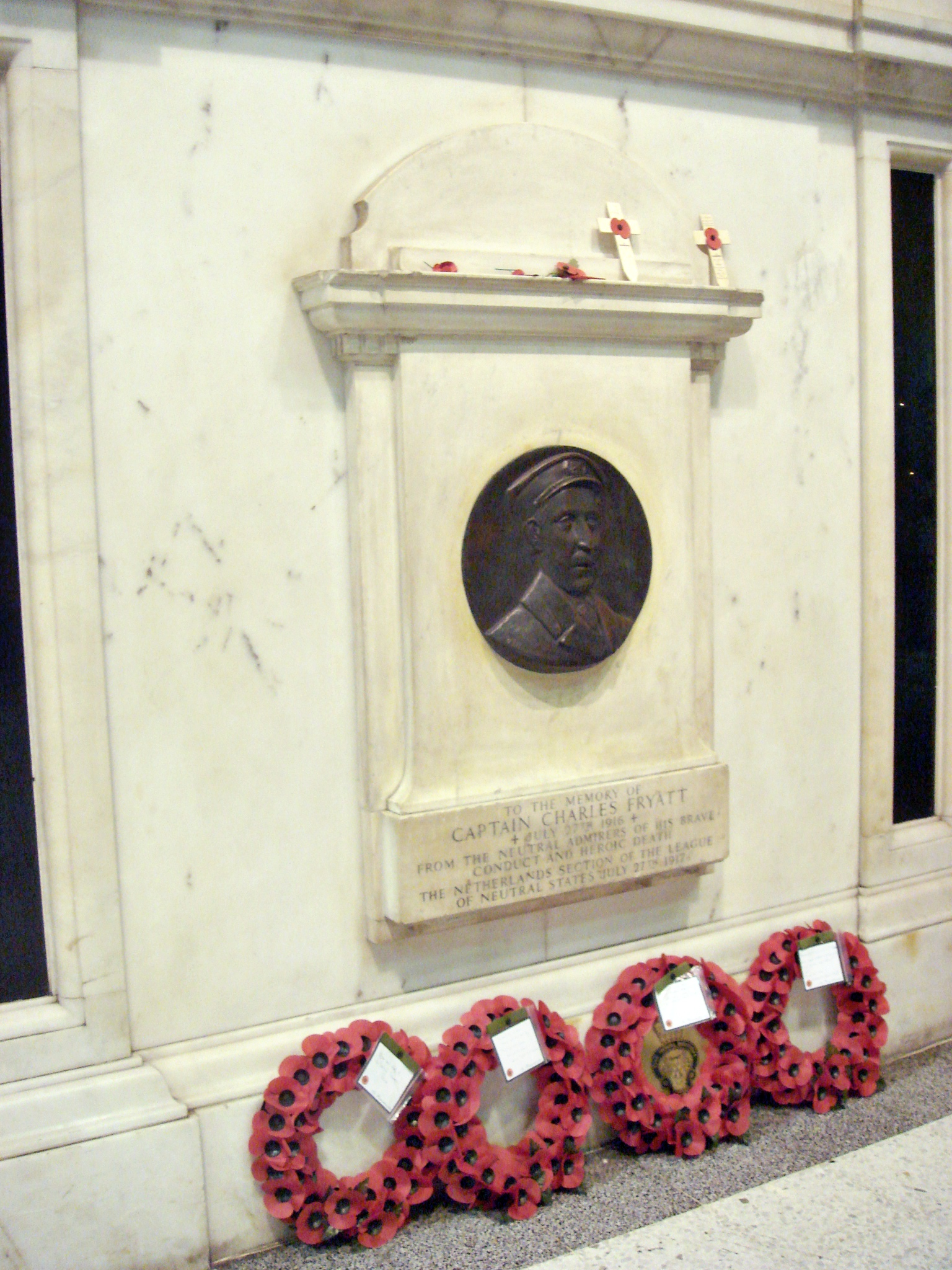 Memorial to Captain Charles Fryatt at Liverpool Street Station in London.